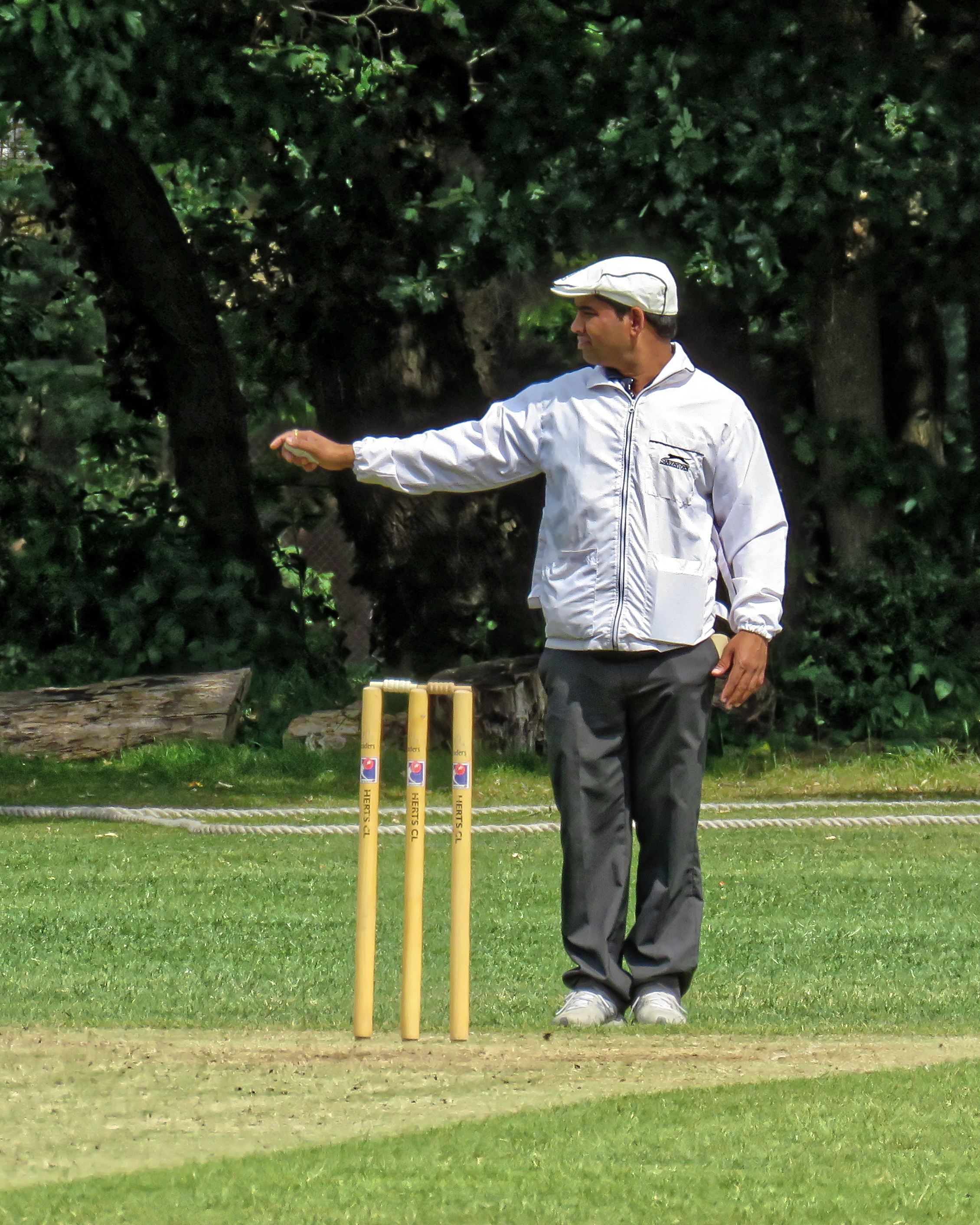 A June 2019 Saturday public Saracens Hertfordshire Cricket League[1] match between Southgate Adelaide Cricket Club 2nd XI and the Hertfordshire based Stevenage Cricket Club 3rd XI (batting) at the Walker Cricket Ground, Waterfall Road, Southgate, Enfield, London, England.Mobile device view: Wikimedia (as at June 2019) makes it difficult to immediately view photo groups related to this image. To see its most relevant allied photos, click on Southgate Adelaide Cricket Club, Stevenage Cricket Club, Minor cricket clubs of London, Minor cricket clubs of Hertfordshire, and this uploader's Cricket photos. You can add a click-through 'categories' button to the very bottom of photo-pages you view by going to settings... three-bar icon top left.Desktop view: Wikimedia (as at June 2019) makes it difficult to immediately view the helpful category links where you can find images related to this one in a variety of ways; for these go to the very bottom of the page.This image is one of a series of date and/or subject allied consecutive photographs kept in progression or location by file name number and/or time marking.Camera: Canon PowerShot SX60 HSSoftware: File lens-corrected, optimized, perhaps cropped, with DxO PhotoLab 2 Elite, and likely further optimized with Adobe Photoshop CS2.